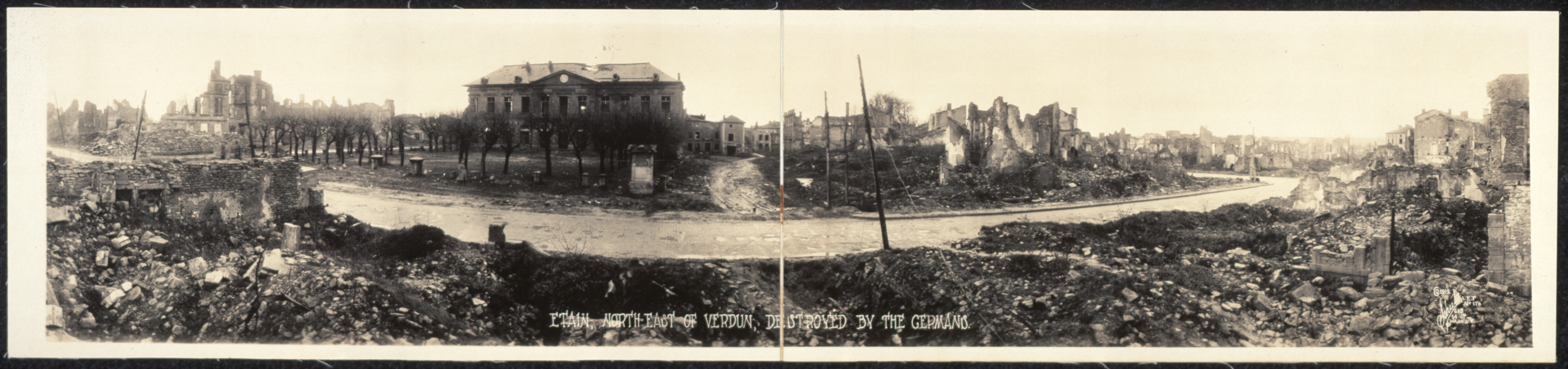 Panoramic photograph entitled "Etain, north east of Verdun, destroyed by the Germans." The Library of Congress, Washington, D. C. Gift of Breckinridge Long.